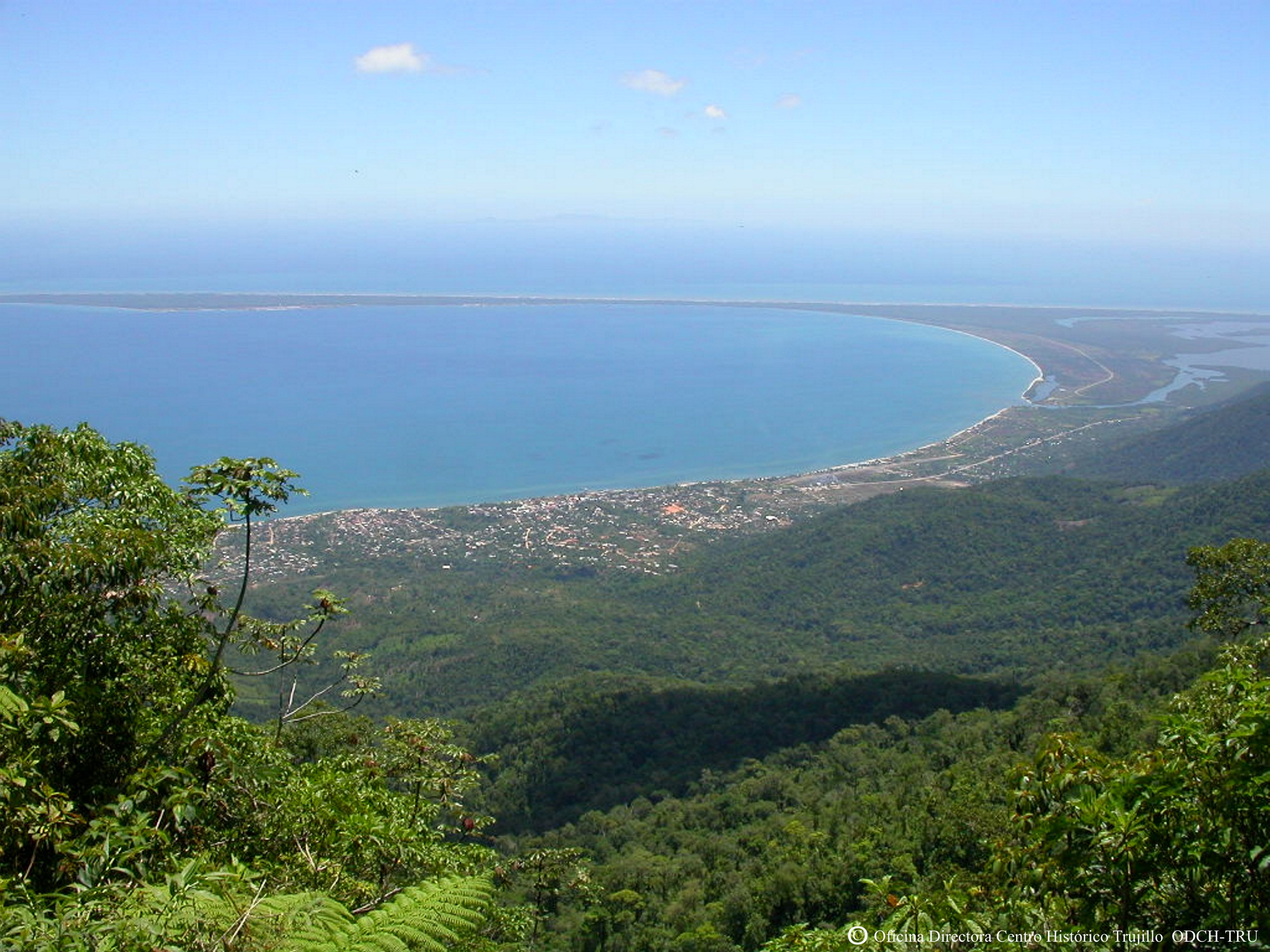 Trujillo bay, view from the mountain, 2006